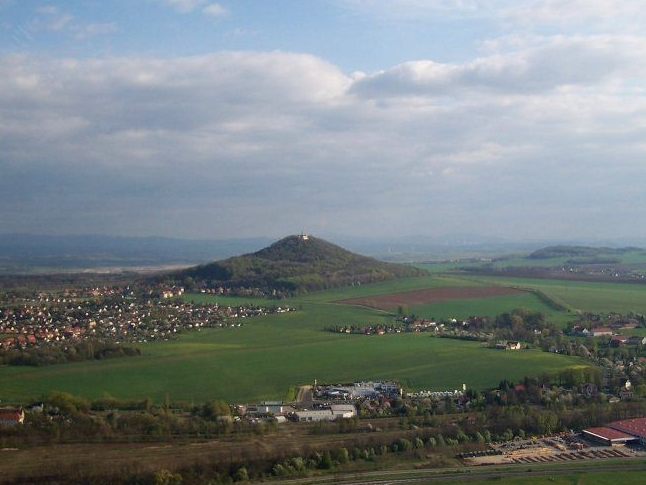 Landeskrone near Görlitz.